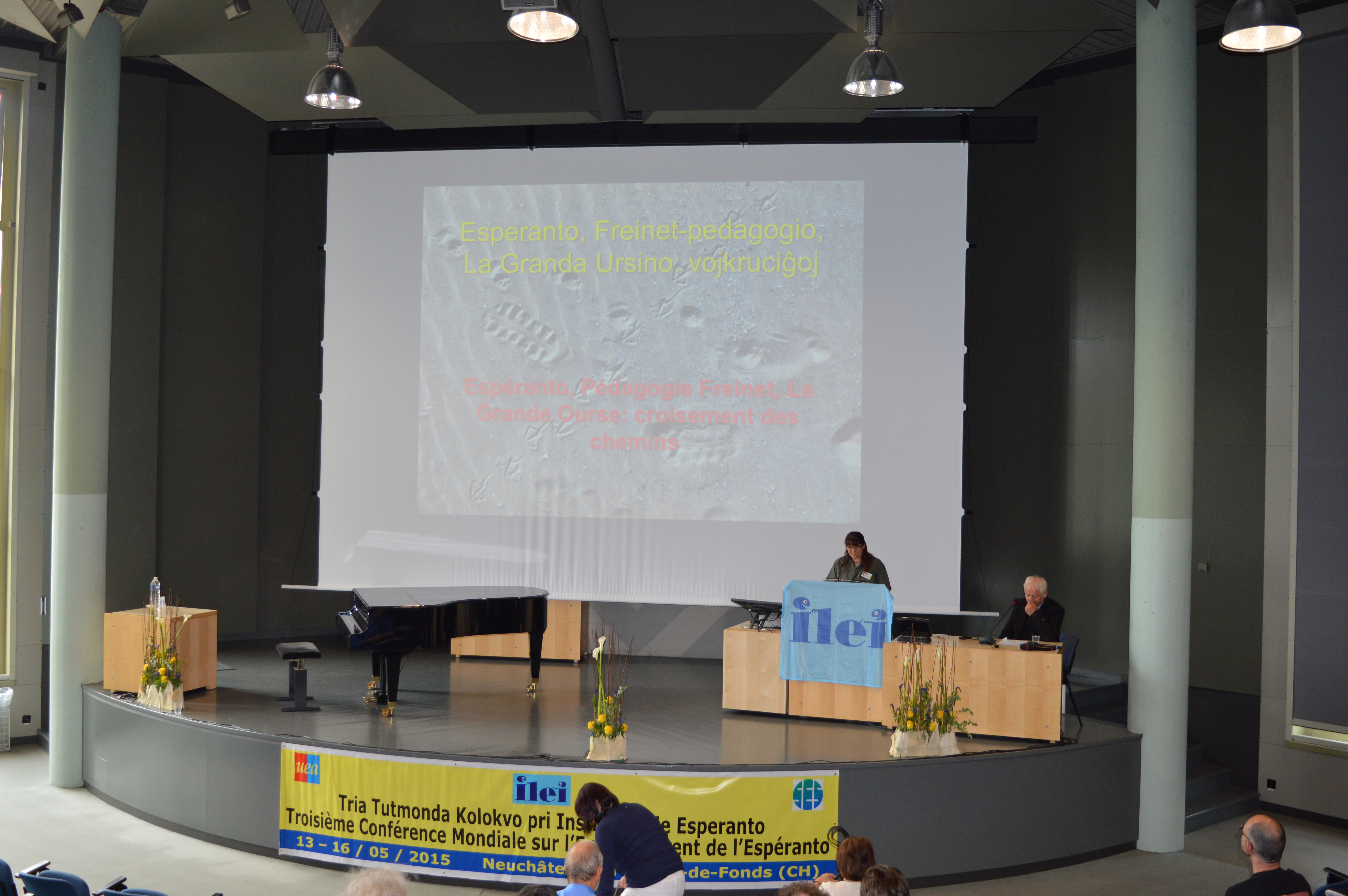 Monika Molnár speaks during the third international conference on Esperanto teachting, canton of Neuchatel, SwitzerlandEsperanto: Monika Molnár parolas dum la tria konferenco pri Esperanto-instruado, Neŭŝatelo, Svislando